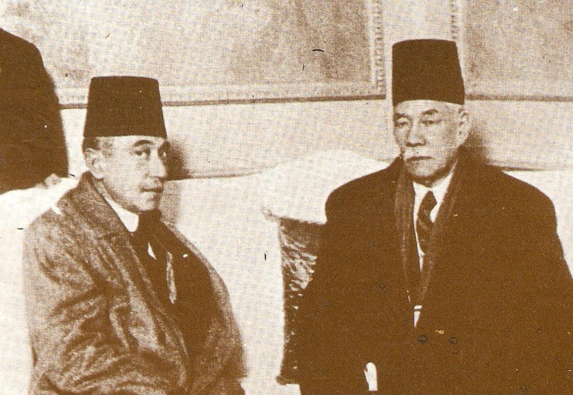 Egyptian poet Ahmed Shawqi (left) & Egyptian politician Saad Zaghloul.